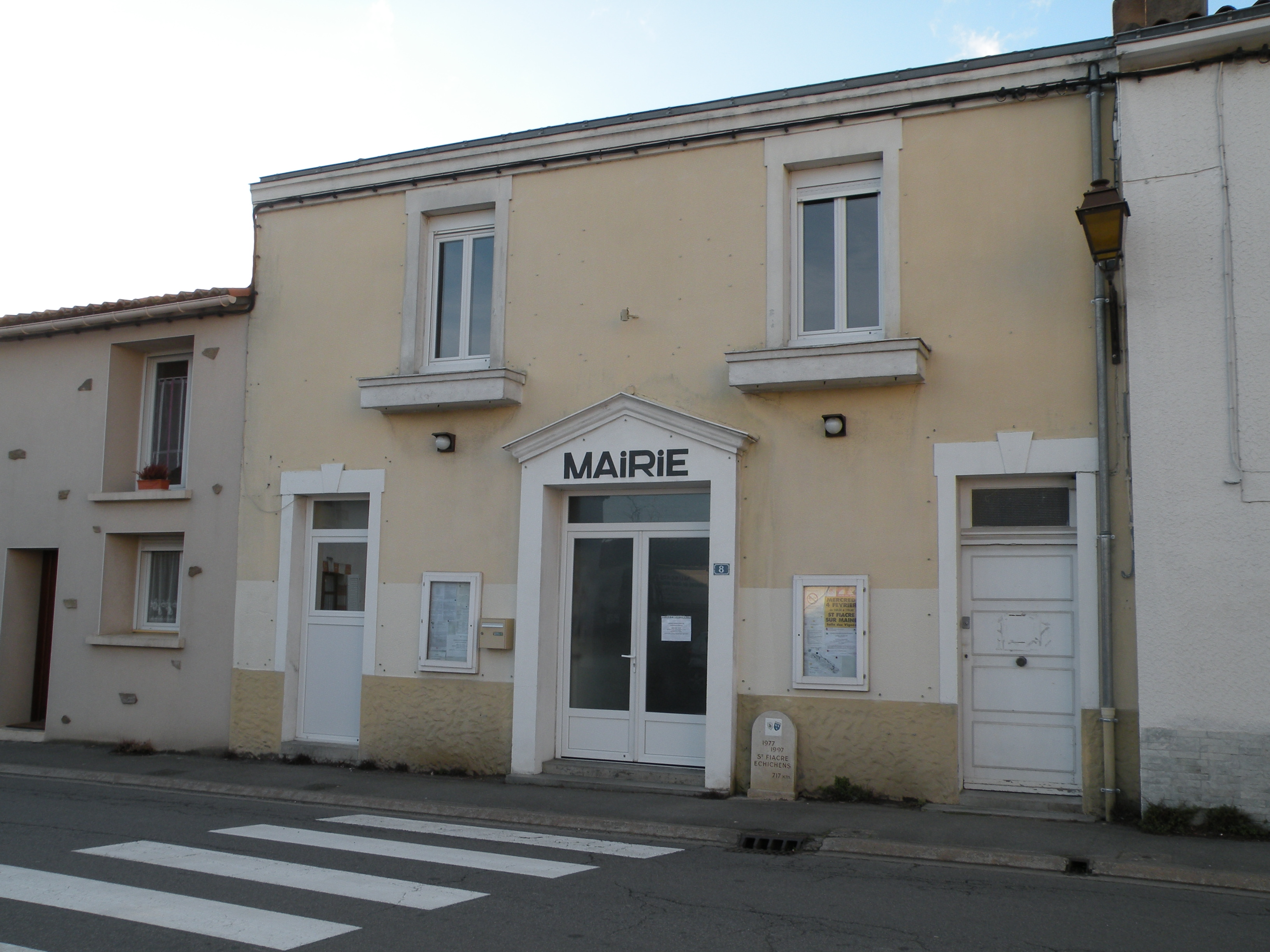 Town hall of Saint-Fiacre-sur-Maine